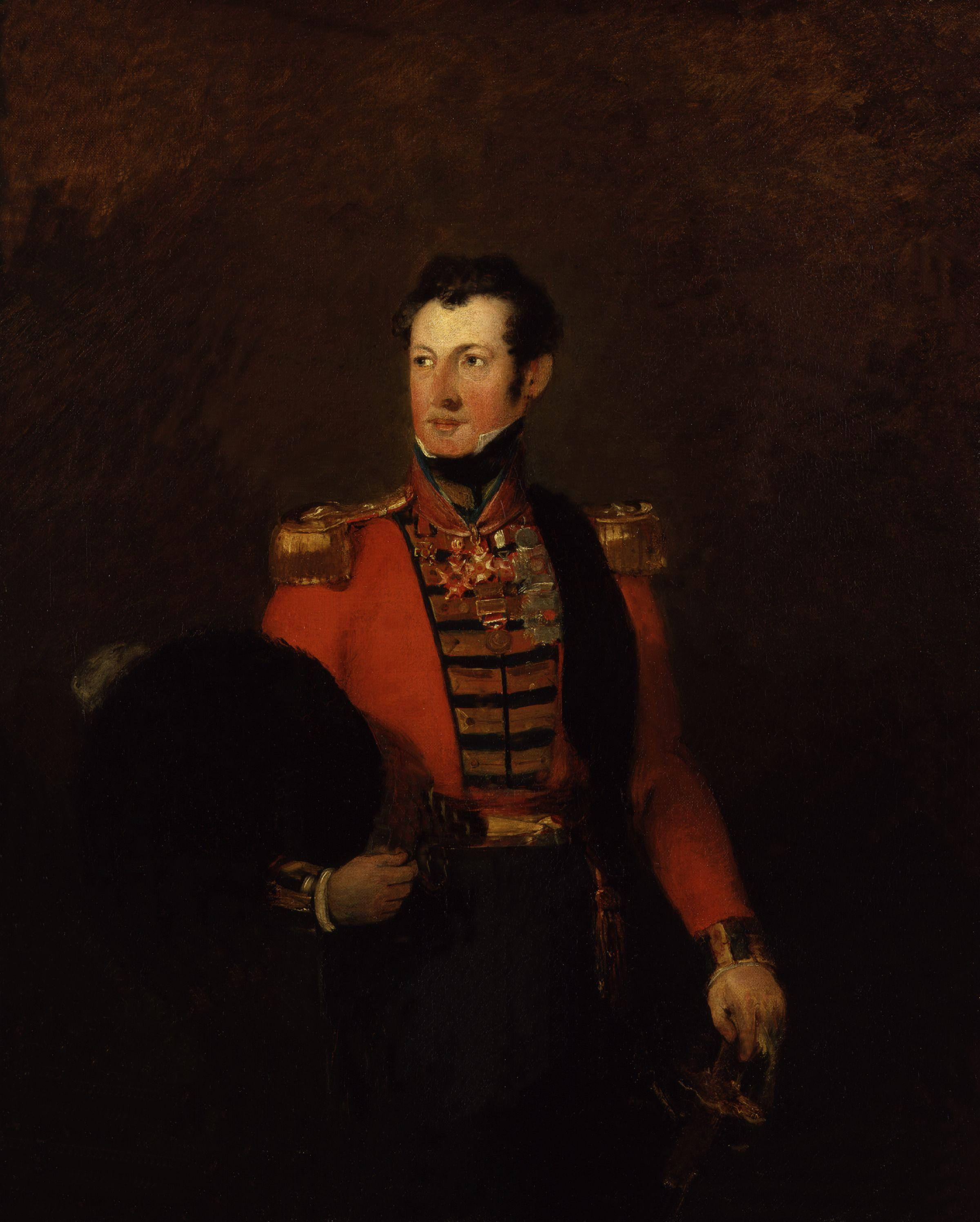 Sir Robert Henry Dick, by William Salter (died 1875). All images in this batch have been confirmed as author died before 1939 according to the official death date listed by the NPG.